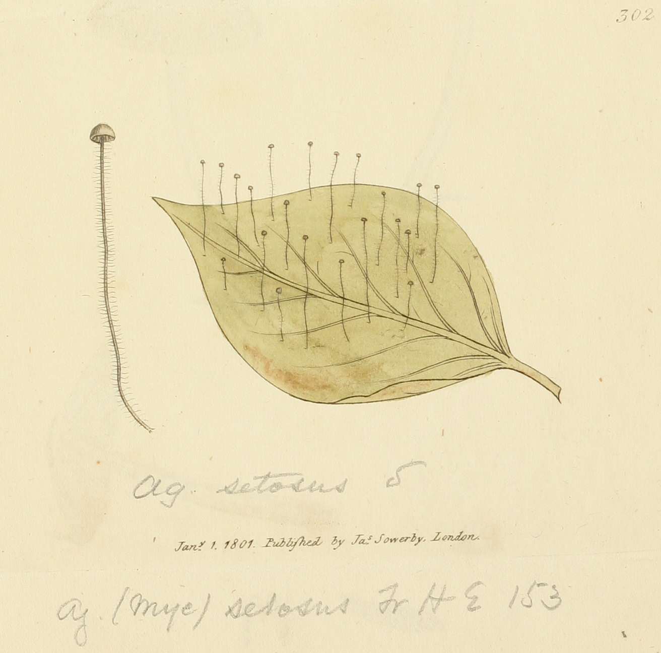 This is a plate from James Sowerby's Coloured Figures of English Fungi or Mushrooms.